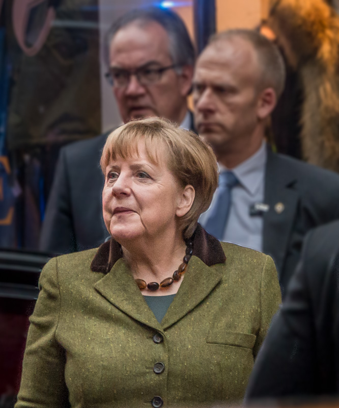 Angela Merkel in Stockholm, Sweden January 31, 2017.